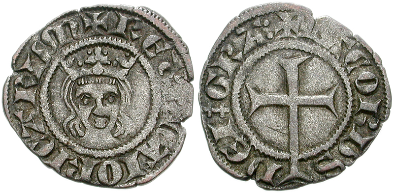 Spain, Mallorca. Jaume II. 1276-1311. Coin 1300-1304. BI Dinero (17mm, 1.02 g, 8h). + RЄX [m]AIORICARUm, crowned facing bust. Whithout marcs + IACOBUS DЄI GRA, latin cross. ME 2051; Burgos 1393. Wrong attribution, is James II. VF, toned.